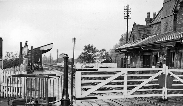 Barlaston & Tittensor Station. View northward, towards Stoke-on-Trent; ex-North Stafford Railway main line from Colwich, and Stafford via Norton Bridge to Stoke and Manchester. Compare with present-day photograph: the crossing-gates and rather unusual revolving contraption for pedestrians, both controlled with levers by the signalman in his adjacent Box, have been replaced by automatic barriers - very necessary now that high-speed electric trains now rush through.